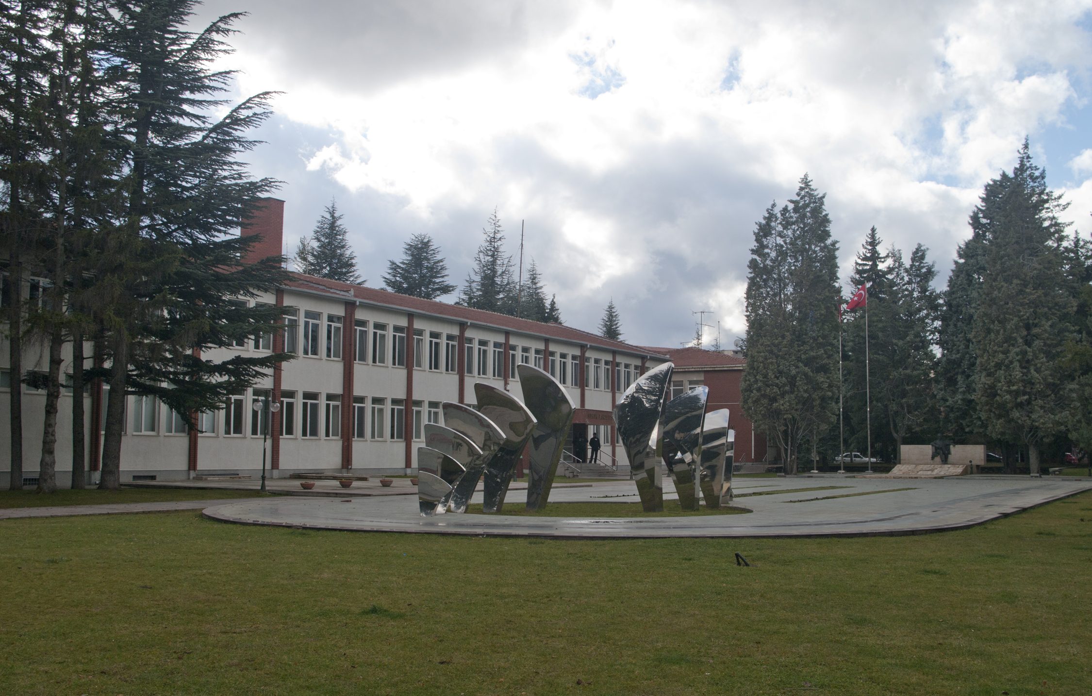 A view of Faculty of Law, Anadolu University. Eskişehir, Turkey.